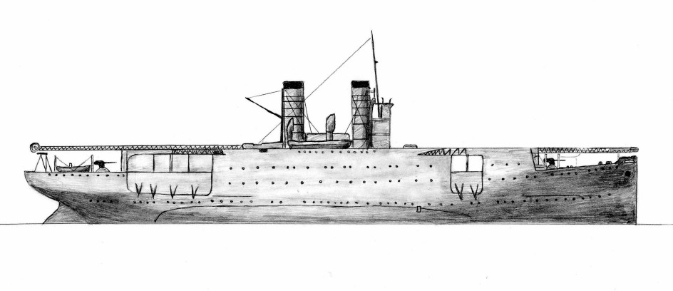 Italian seaplane tender Giuseppe Miraglia